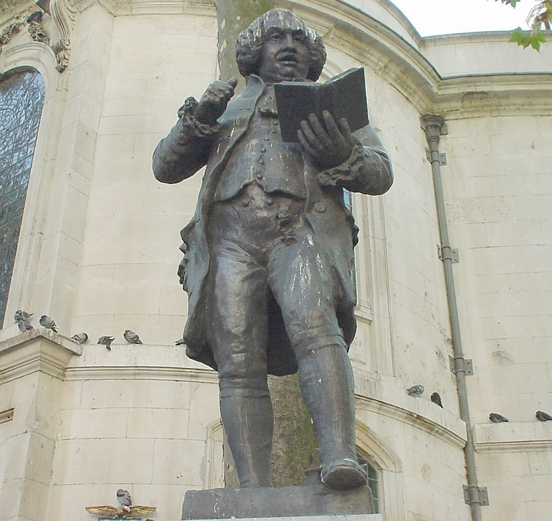 Statue Of Samuel Johnson-Strand London-Rear Of St Clement Danes Church